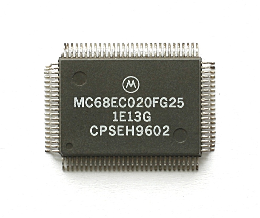 CPU Motorola 68EC020 PQFP